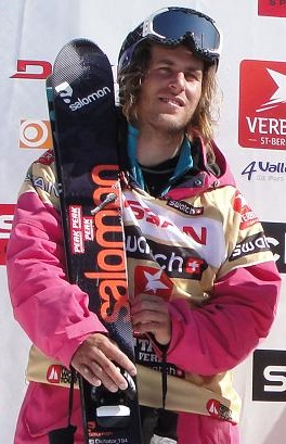 Henrik Windstedt during the Freeride World Tour 2010.